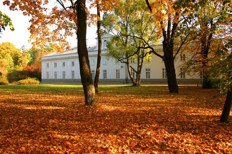 Lazienki Park in Warsaw with the permission of the authors Marek and Ewa Wojciechowscy from [